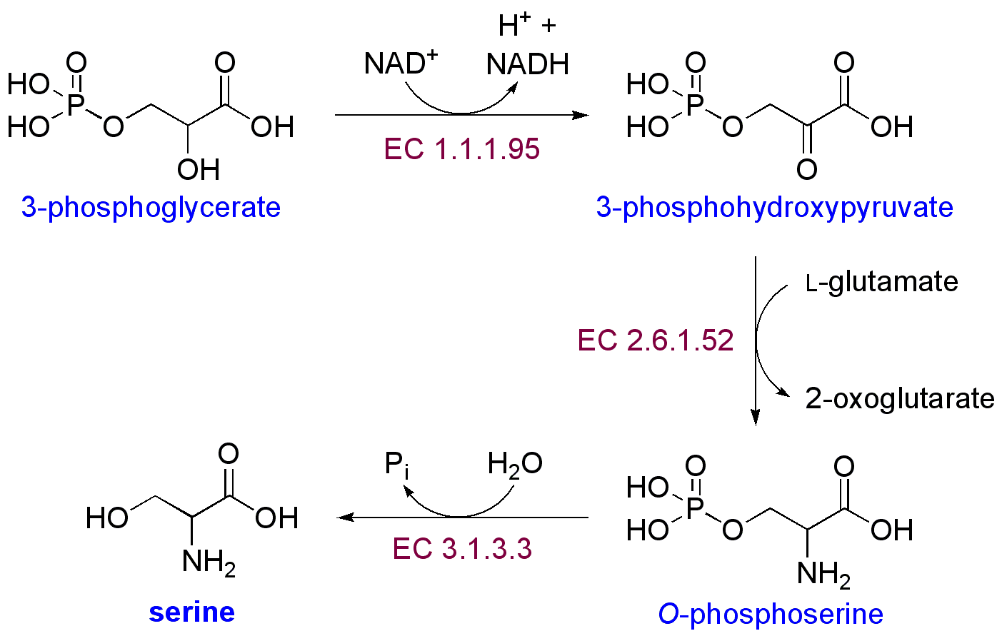 Biosynthesis of serine.